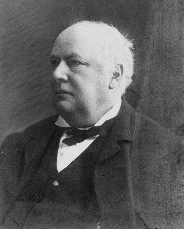 Portrait of George Coppin.